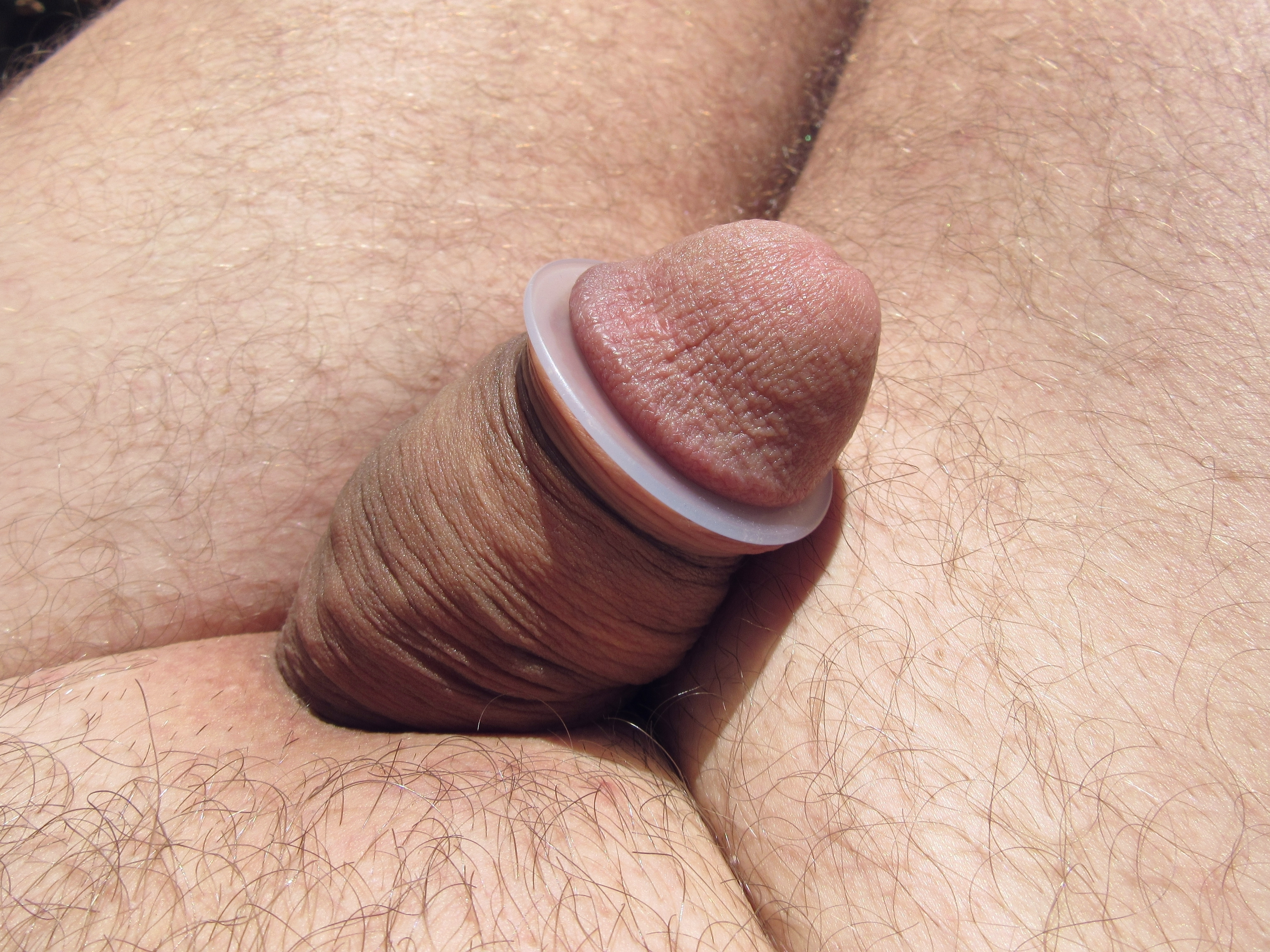 A phimosis correction ring keeps the foreskin retracted, and can be used as an alternative to removing it with a circumcision.